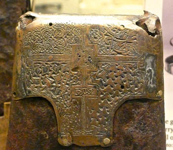 Now in British Museum # MME 1889, 9-2, 22 Early Irish Christian bell mount. 10th Century AD or earlier.